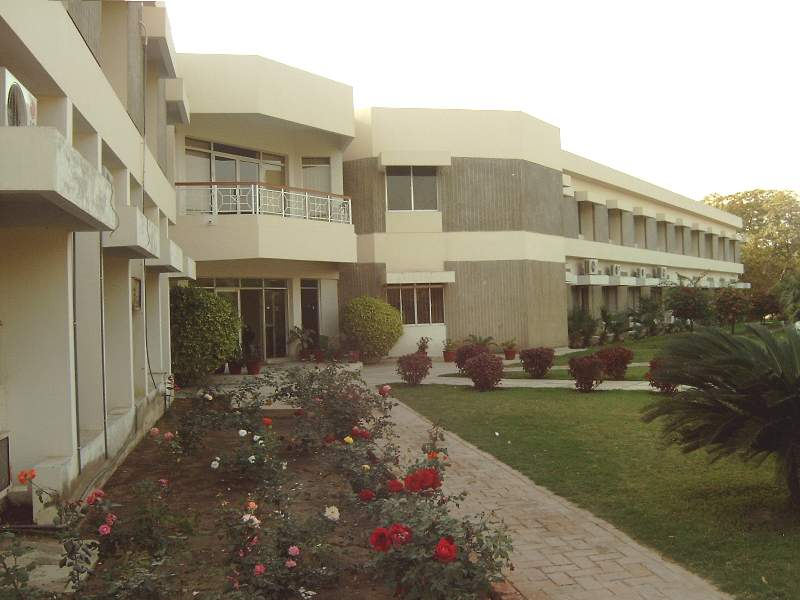 I've taken this picture and releasing it for public domain